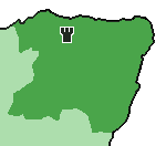 Image showing the location of Huntly Castle within Grampian, Scotland